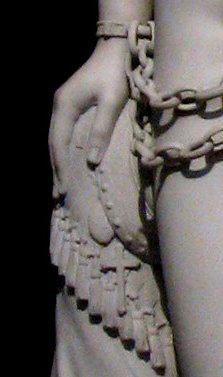 Screenshot of the right hand of The Greek Slave. Hiram Powers, 1851. Marble. 165.7 × 53.3 × 46.4 cm. New Haven, Connecticut, Yale University Art Gallery (inv.no. 1962.43).